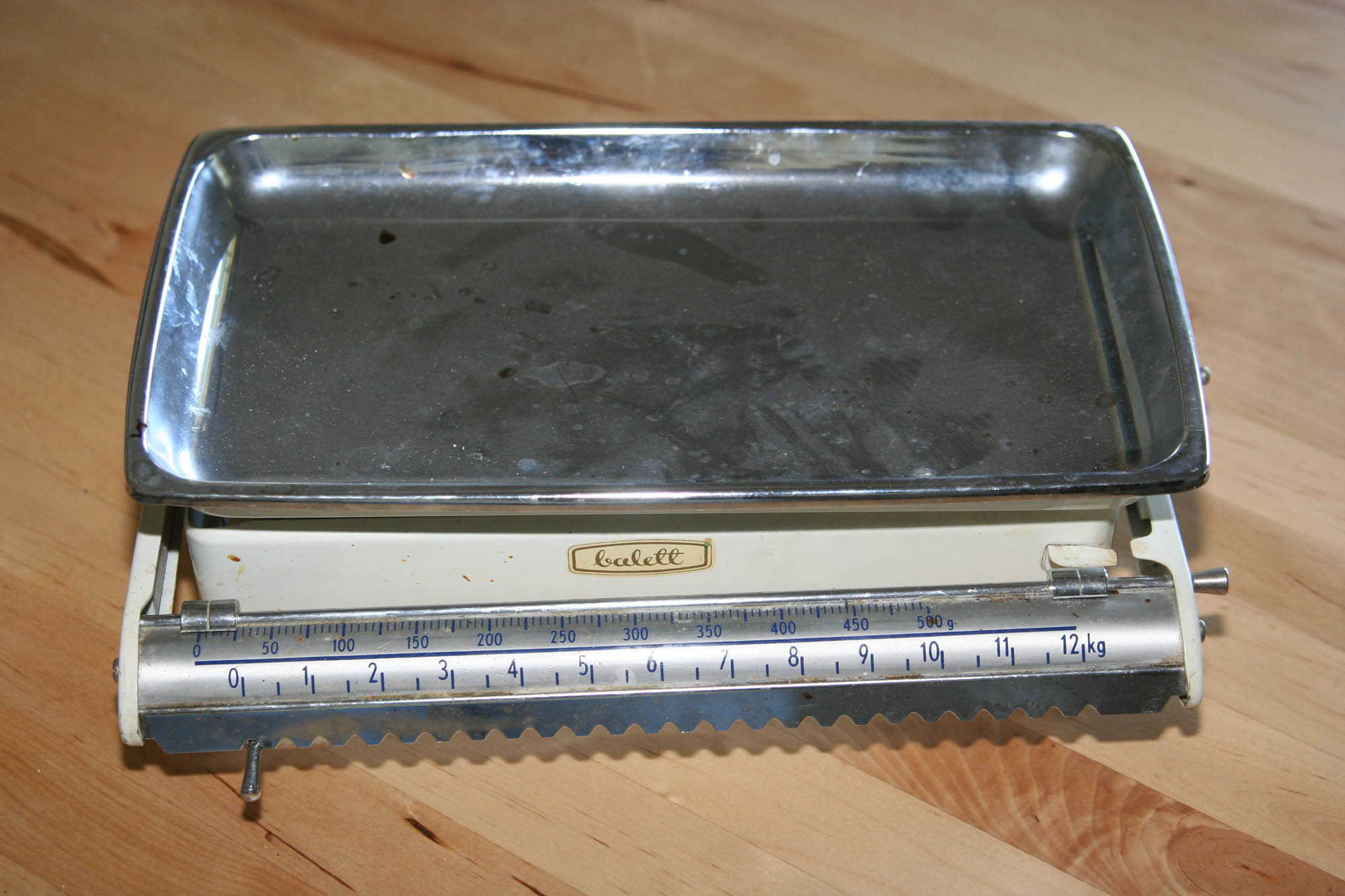 Analog kitchen scale